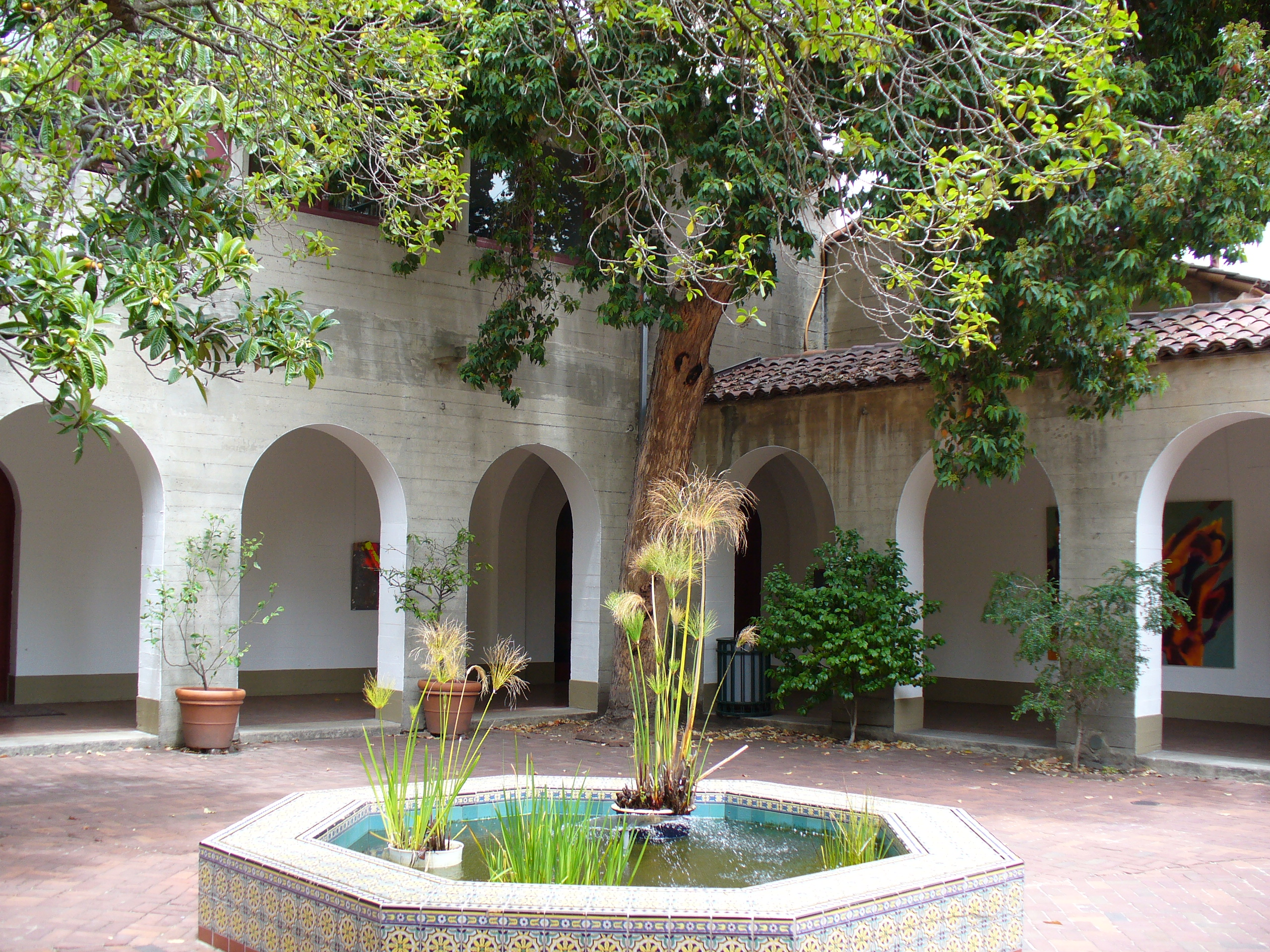 A view of the atrium of San Francisco Art Institute